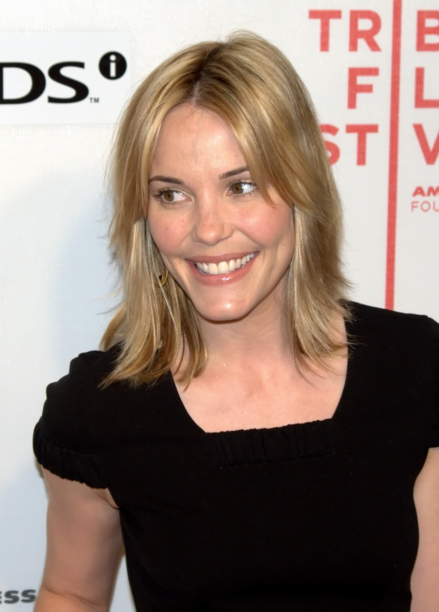 Leslie Bibb at the 2009 Tribeca Film Festival premiere of Moon.